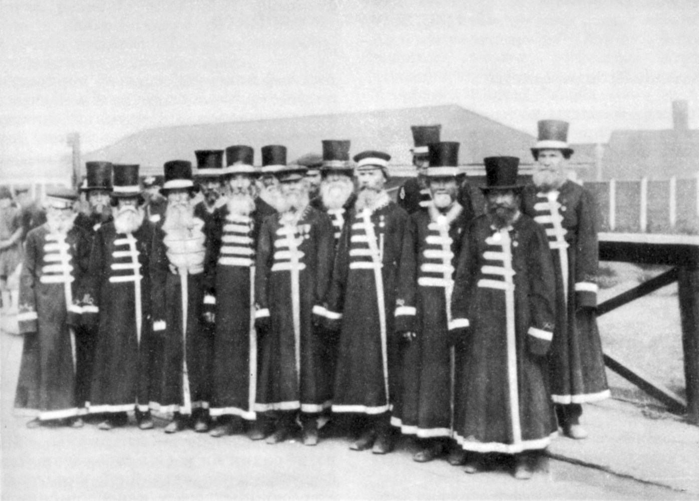 Weapon_masters_of_Izhevsk